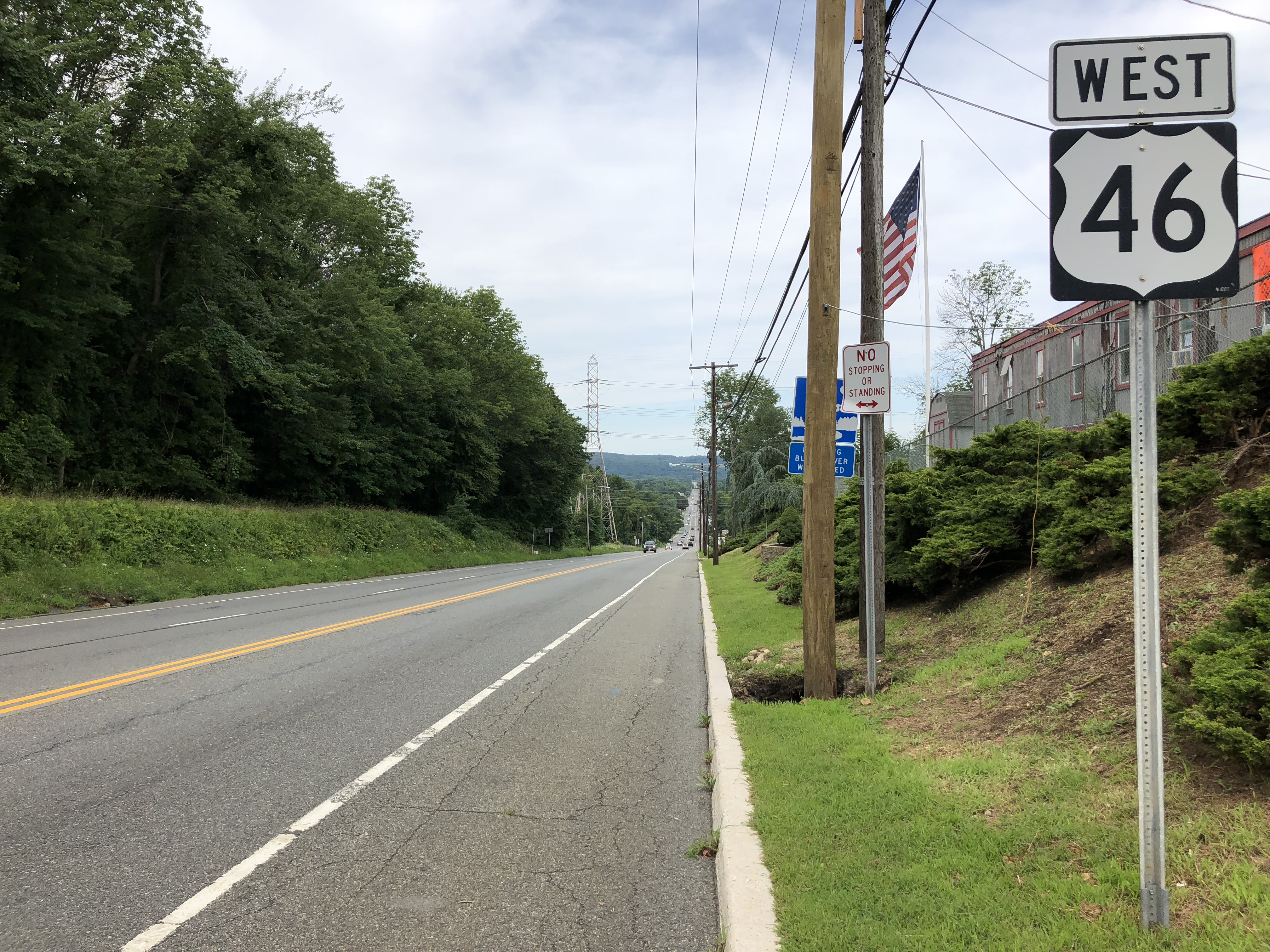 View west along U.S. Route 46 just west of Scrub Oak Road in Mine Hill Township, Morris County, New Jersey